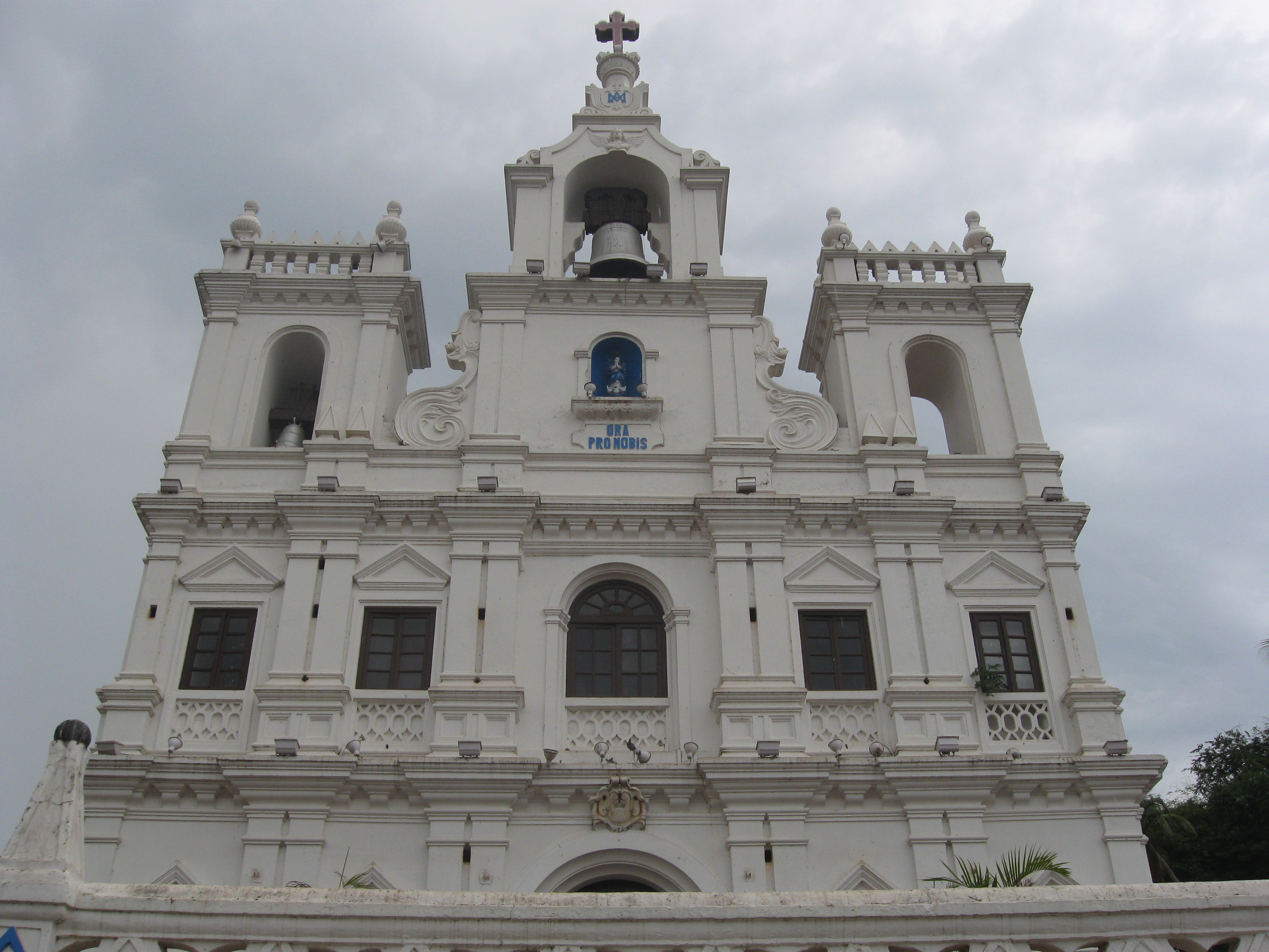 Front of the Church of the Immaculate Conception in Panjim, Goa